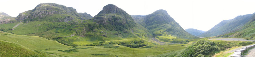 Glencoe, Scotland